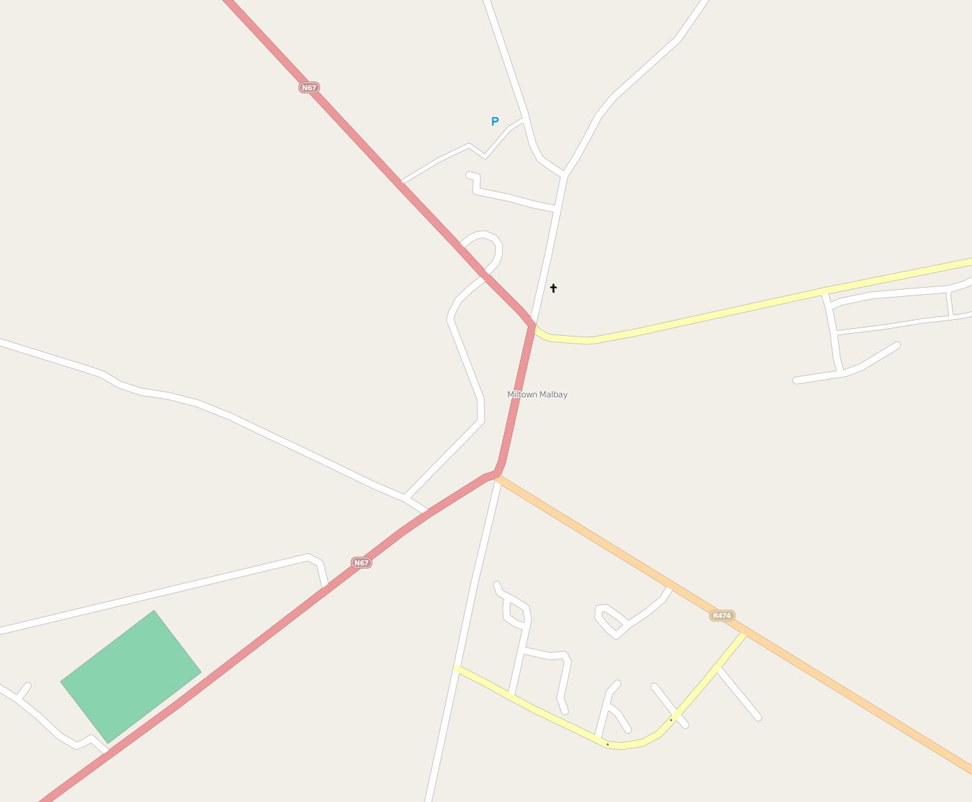 Street Map of Milltown Malbay, Co. Clare, Ireland © OpenStreetMap contributors